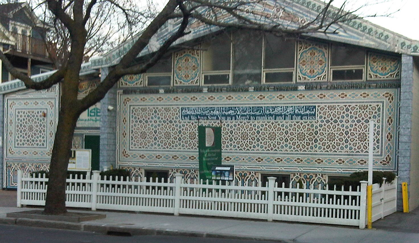 View of the Islamic Society of Boston from Prospect Street in Cambridge, MA.